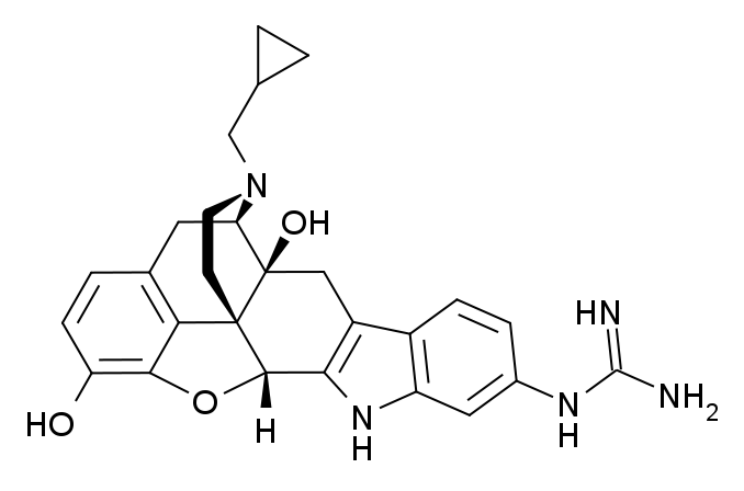 Structure of 6'-guanidinonaltrindole